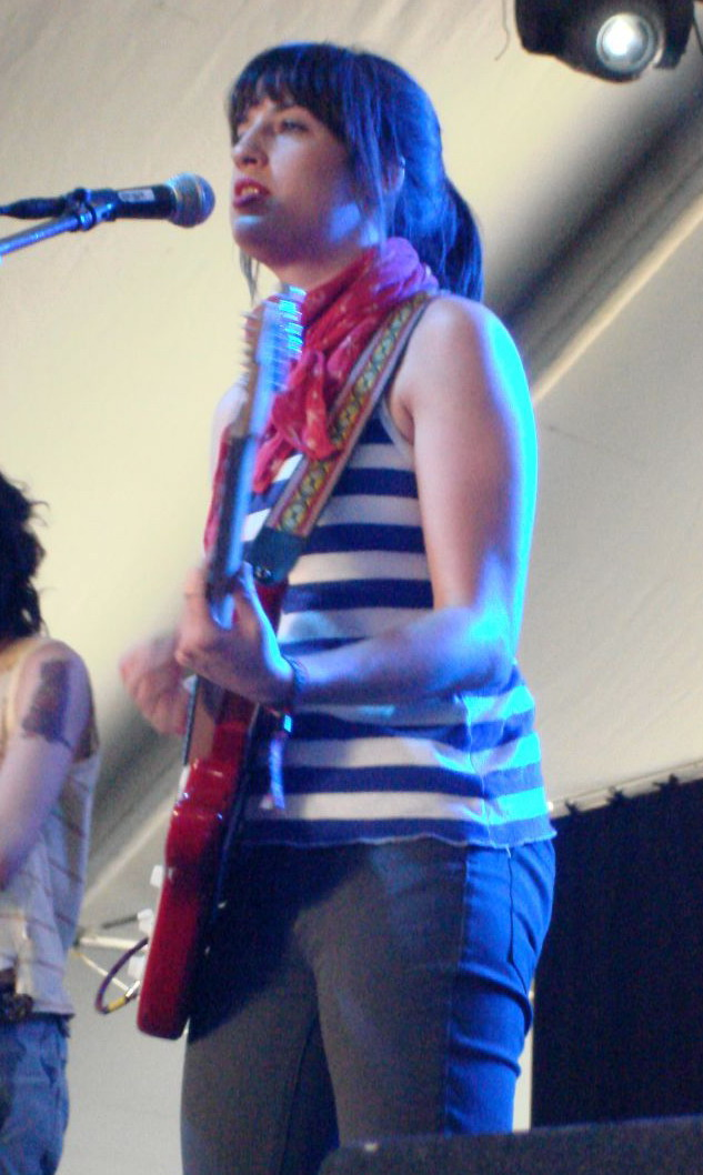 Carolina Parra of Cansei de Ser Sexy at the Coachella festival, Day 3, Mojave Tent, 4/29/07